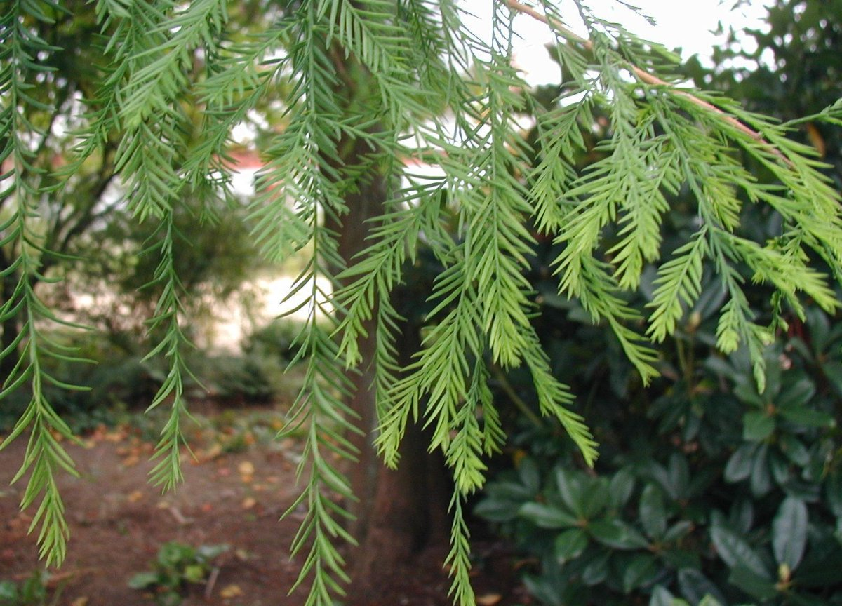 Taxodium distichum: Young shoot and needles. Photo: Sten Porse